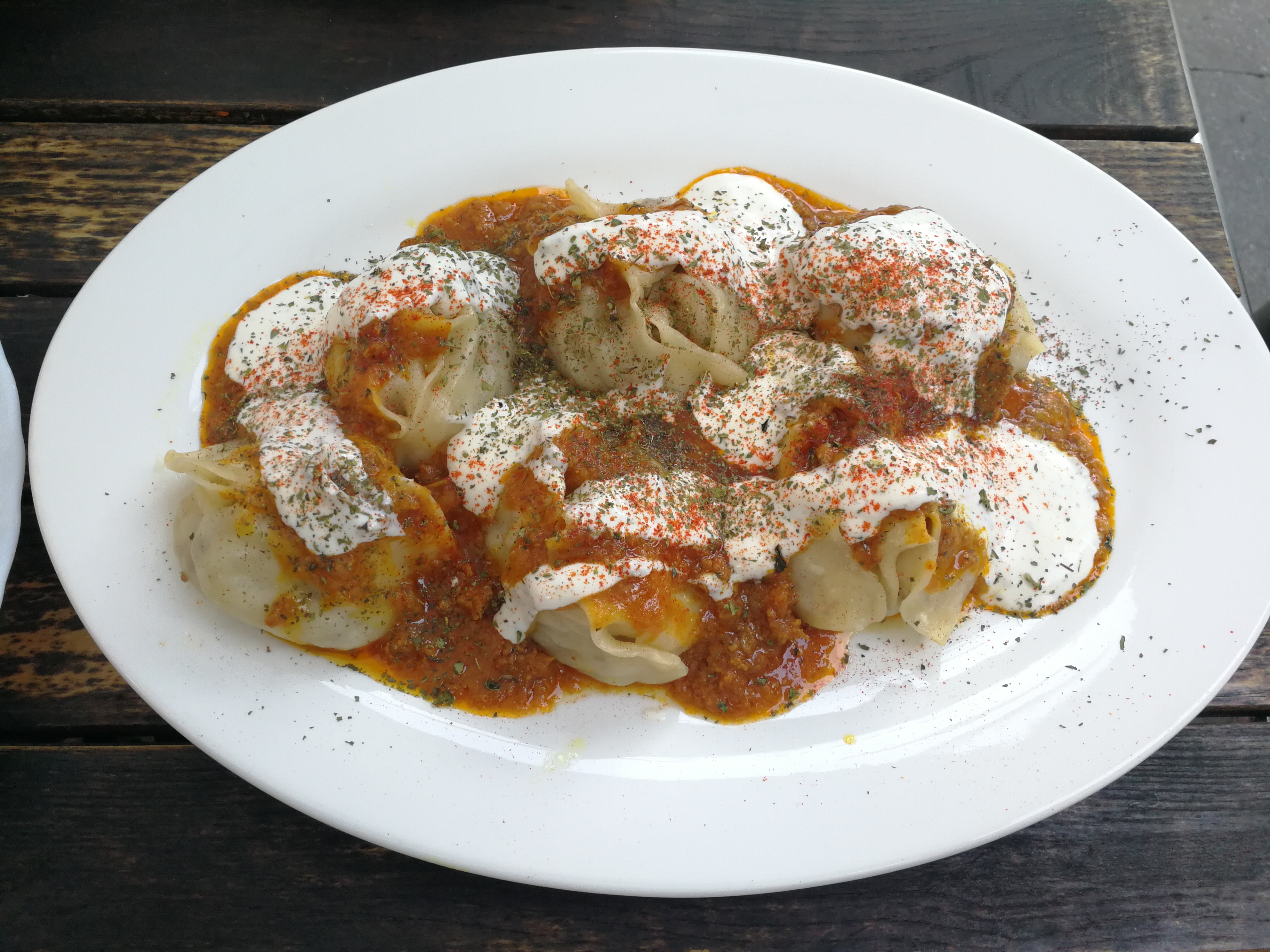 Mantu. Afghan dumplings filled with minced meat and onions. Available in many countries in the area under slightly varying names.